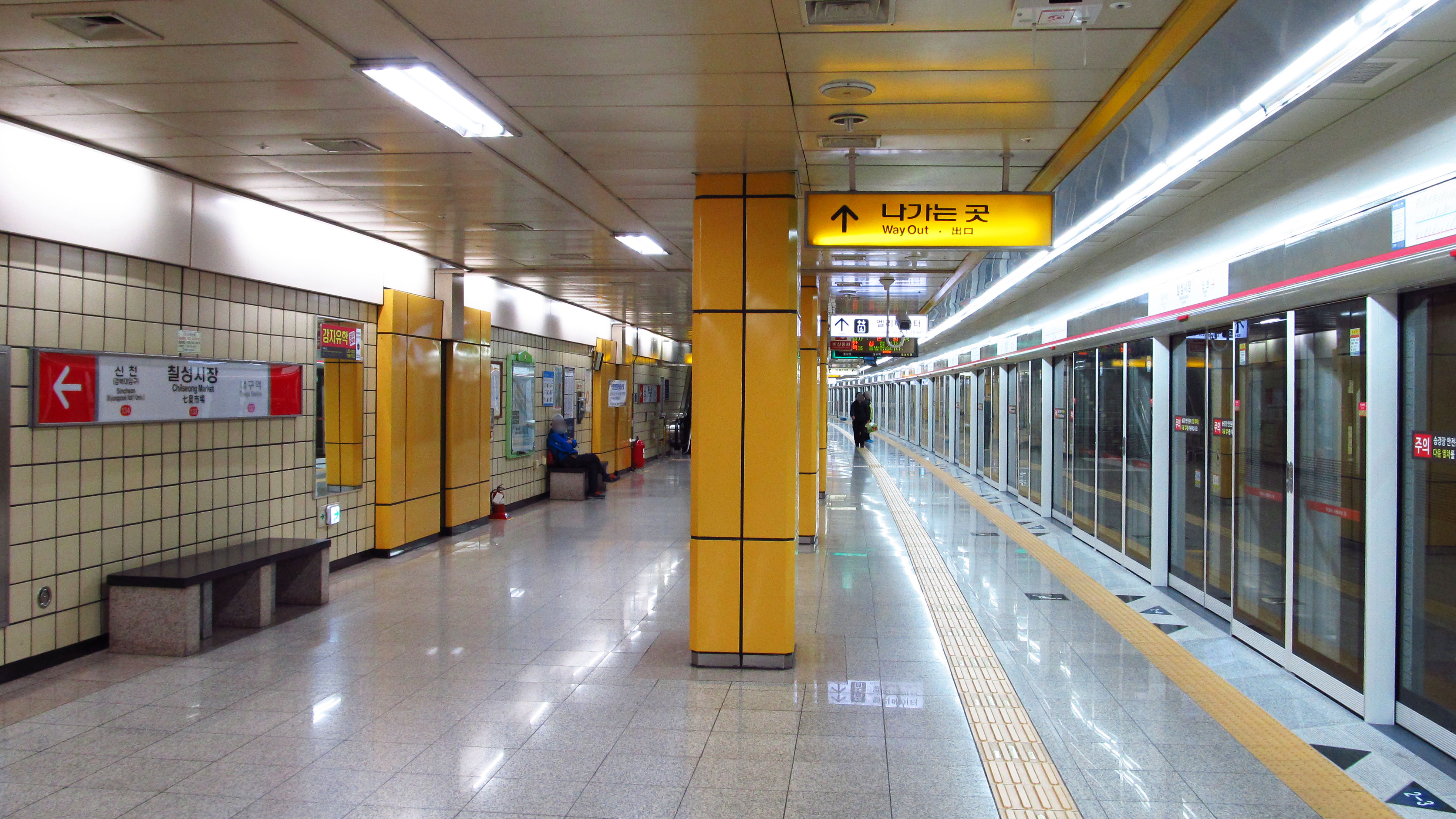 The platform at Chilseong Market Station on the Daegu Metro Line 1, for Sincheon, Ansim